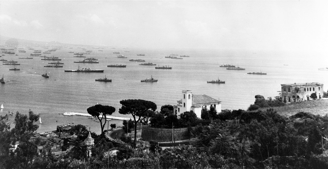 Part of the invasion fleet of "Operation Dragoon", the invasion of Southern France, off the French Mediterranean coast, circa in August 1944.